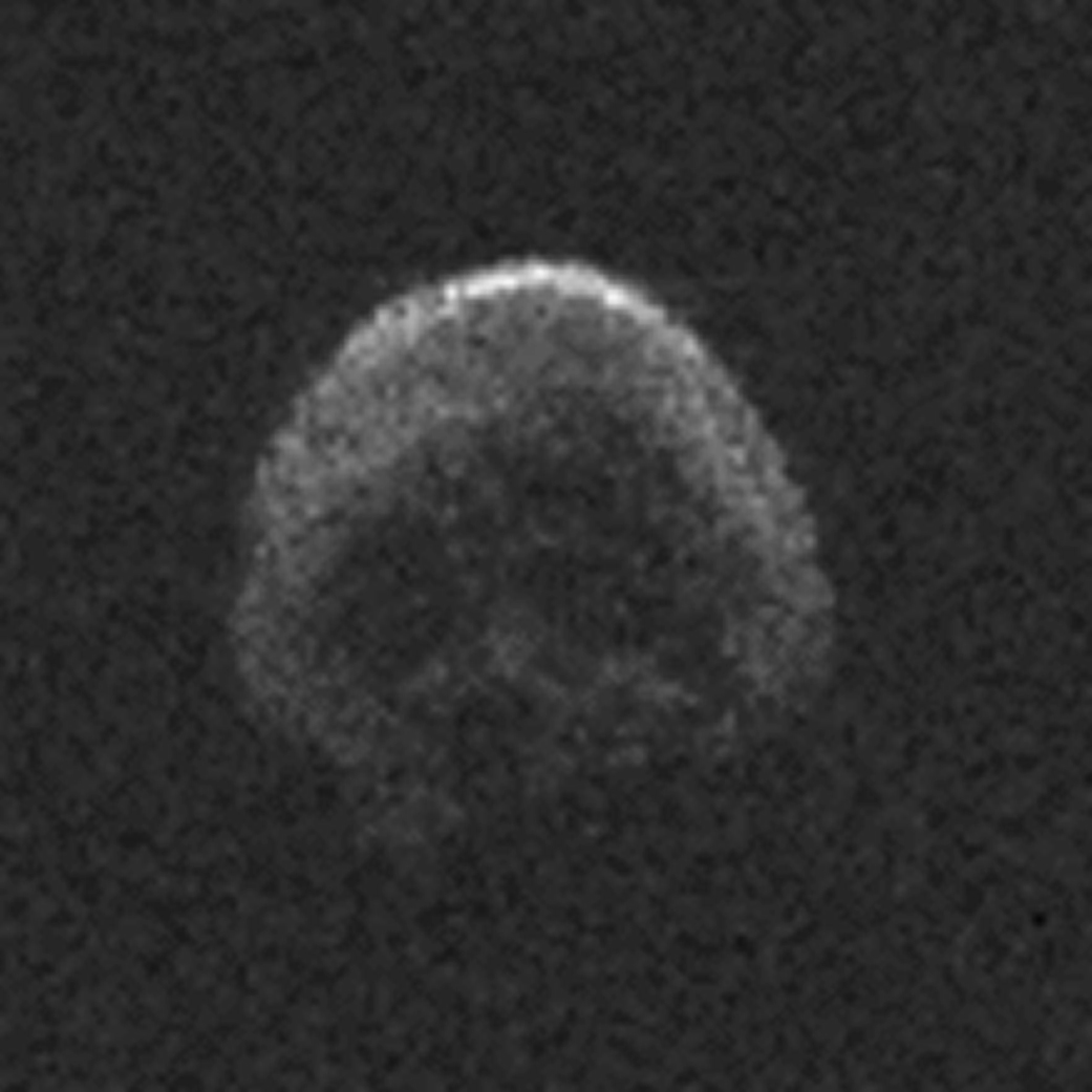 This image of asteroid 2015 TB145, a dead comet, was generated using radar data collected by the National Science Foundation's 1,000-foot (305-meter) Arecibo Observatory in Puerto Rico. The radar image was taken on Oct. 30, 2015, and the image resolution is 25 feet (7.5 meters) per pixel.